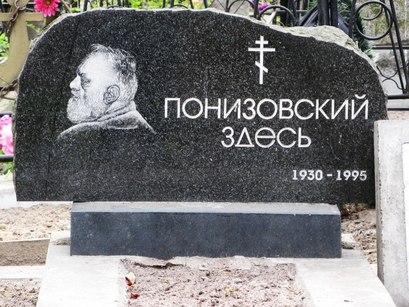 Boris Ponizovsky's gravestone